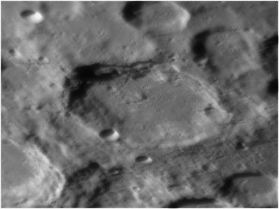 LROC WAC mosaic image (No.s M119827656ME and M119834425ME). Calibrated by LROC_WAC_Previewer.